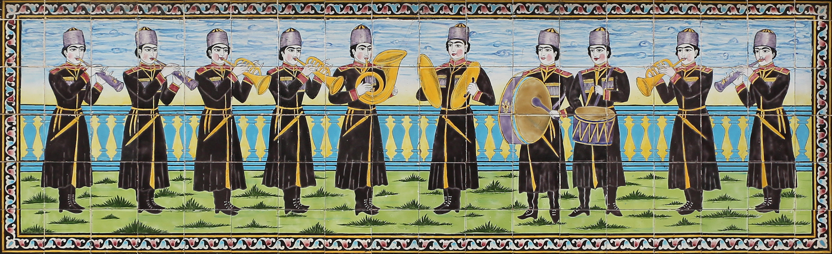 Drawing of an orchestra in tiles of ceramic on the Shams ol Emareh, Golestan Palace, Tehran, Iran